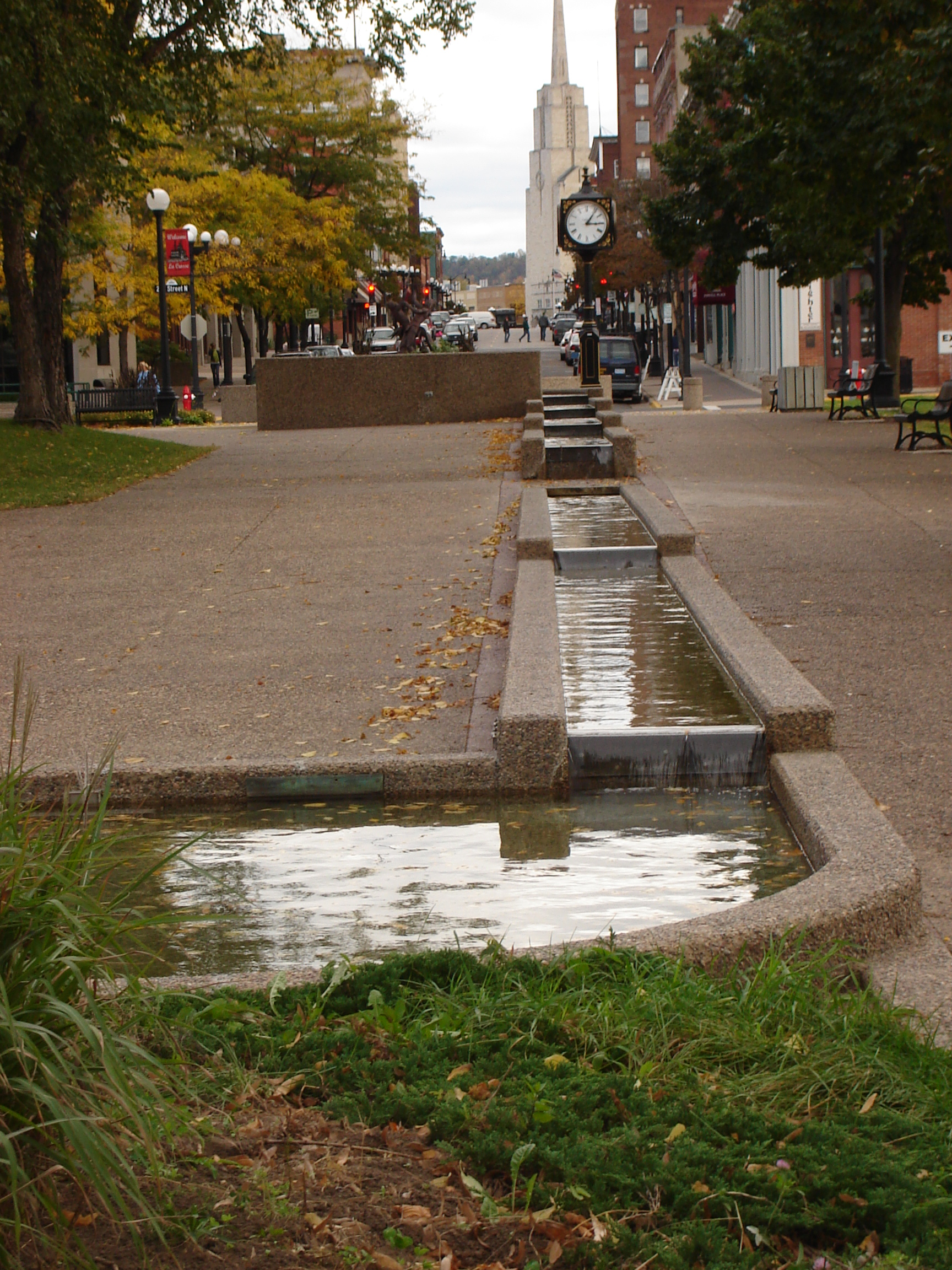 La Crosse, Wisconsin, USA